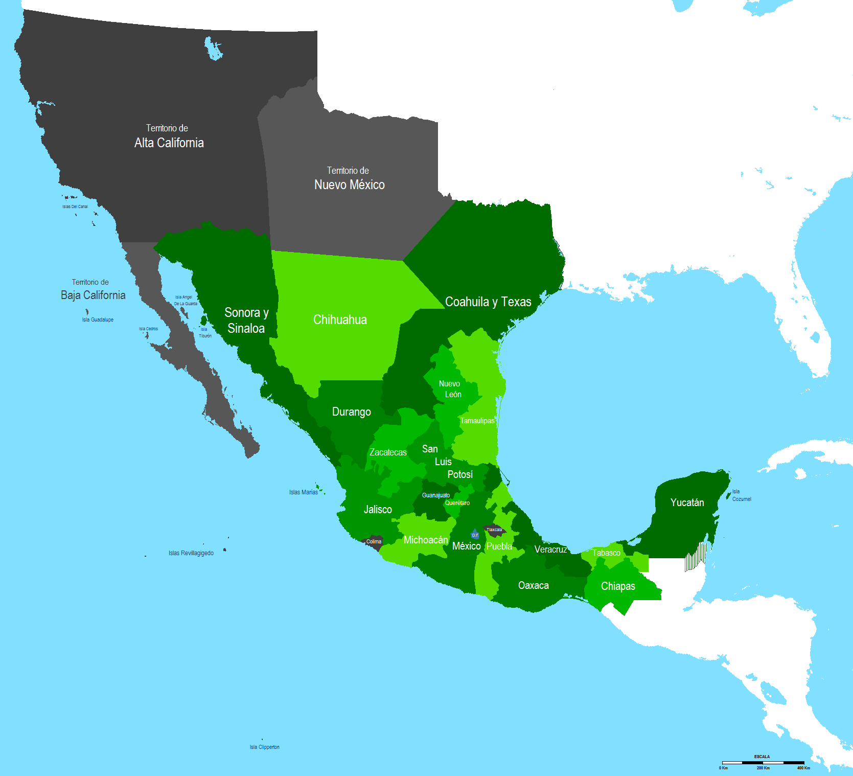 Map of Mexico in 1824 after the creation of the territory of Tlaxcala